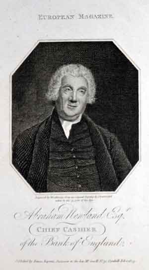 Abraham Newland (born c. 1730, died 21 November 1807 aged 77) was the chief cashier at the Bank of England from 1782 to 1807. From the EUROPEAN MAGAZINE. and. LONDON REVIEW. Containing. PORTRAITS, VIEWS, BIOGRAPHY, ANECDOTES, LITERATURE, published and edited by James Asperne (1757 to1820) .It was in direct competition with the Gentleman's Magazine. Its founding editor, James Perry soon passed proprietorship to the Shakespearean scholar Isaac Reed and his partners John Sewell and Daniel Braithwaite, who guided the European Magazine during its first two decades £18 RARE x 4 dated 1803